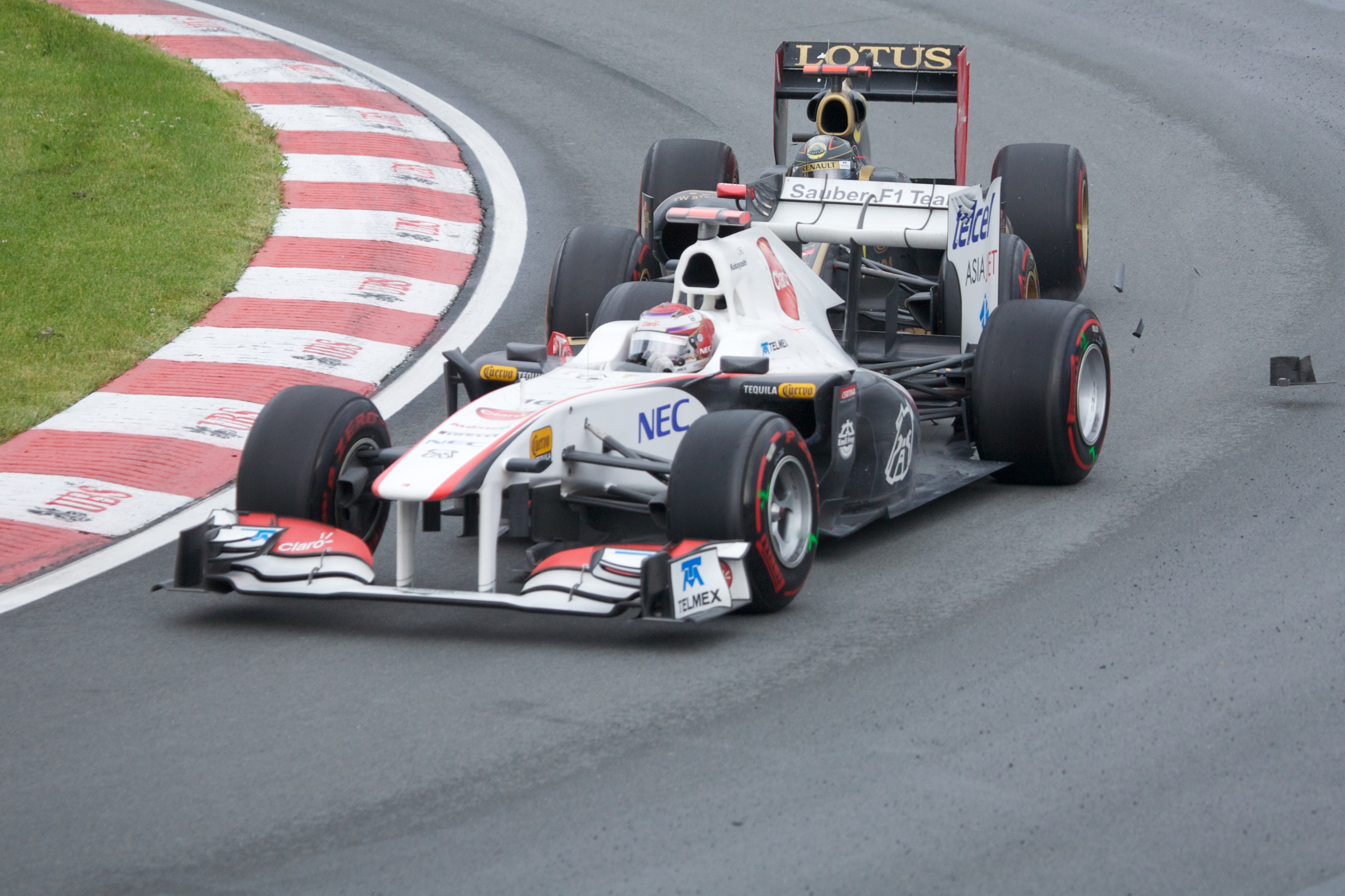 2011 Canadian Grand Prix